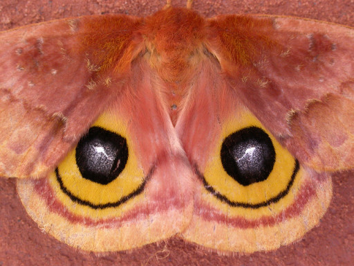 Io moths, Automeris io, female, showing eyespots. Location: Durham County, North Carolina, United States